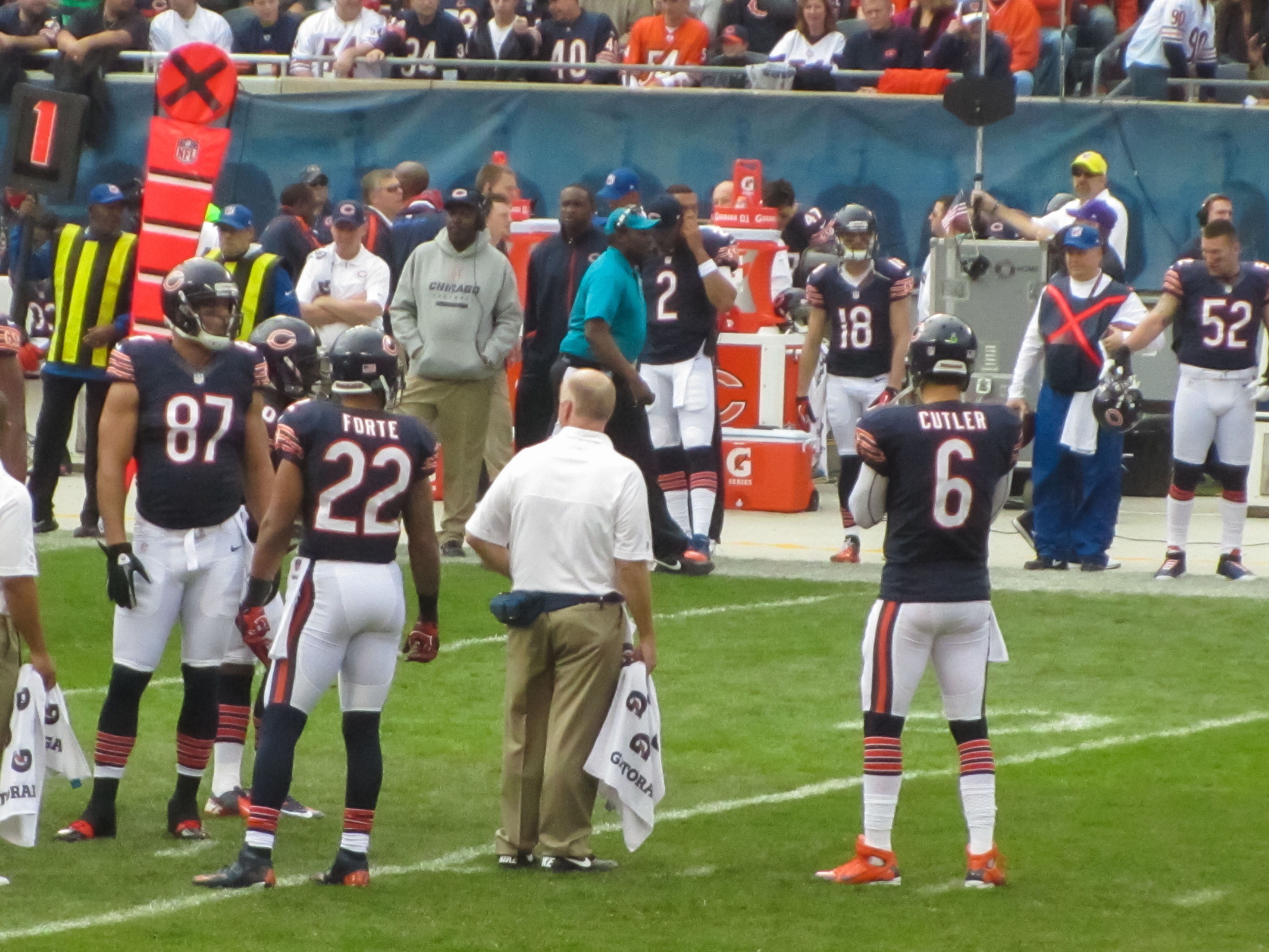 Chicago Bears offense on the field during a TV timeout of a game vs Seattle Seahawks in Dec. 2012.